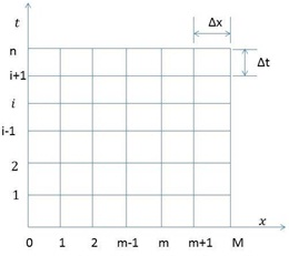 FDM formulation of time dependent problems involve discrete points in time scale as well as in space.